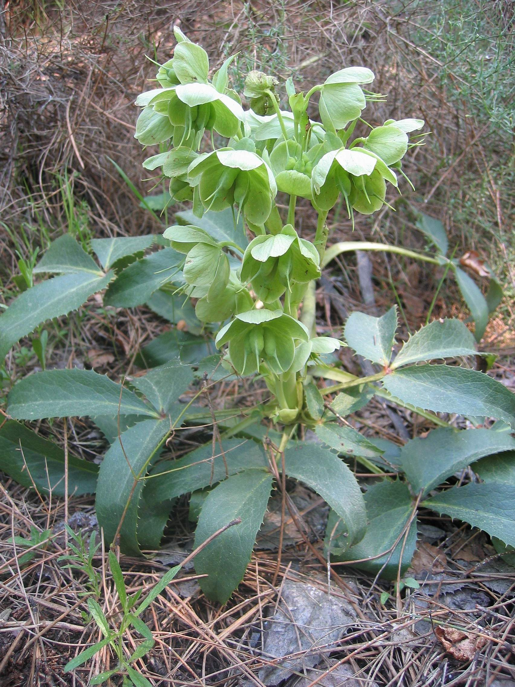 Helleborus argutifolius, Habitat: Forest of Bonifatu, Corse, France